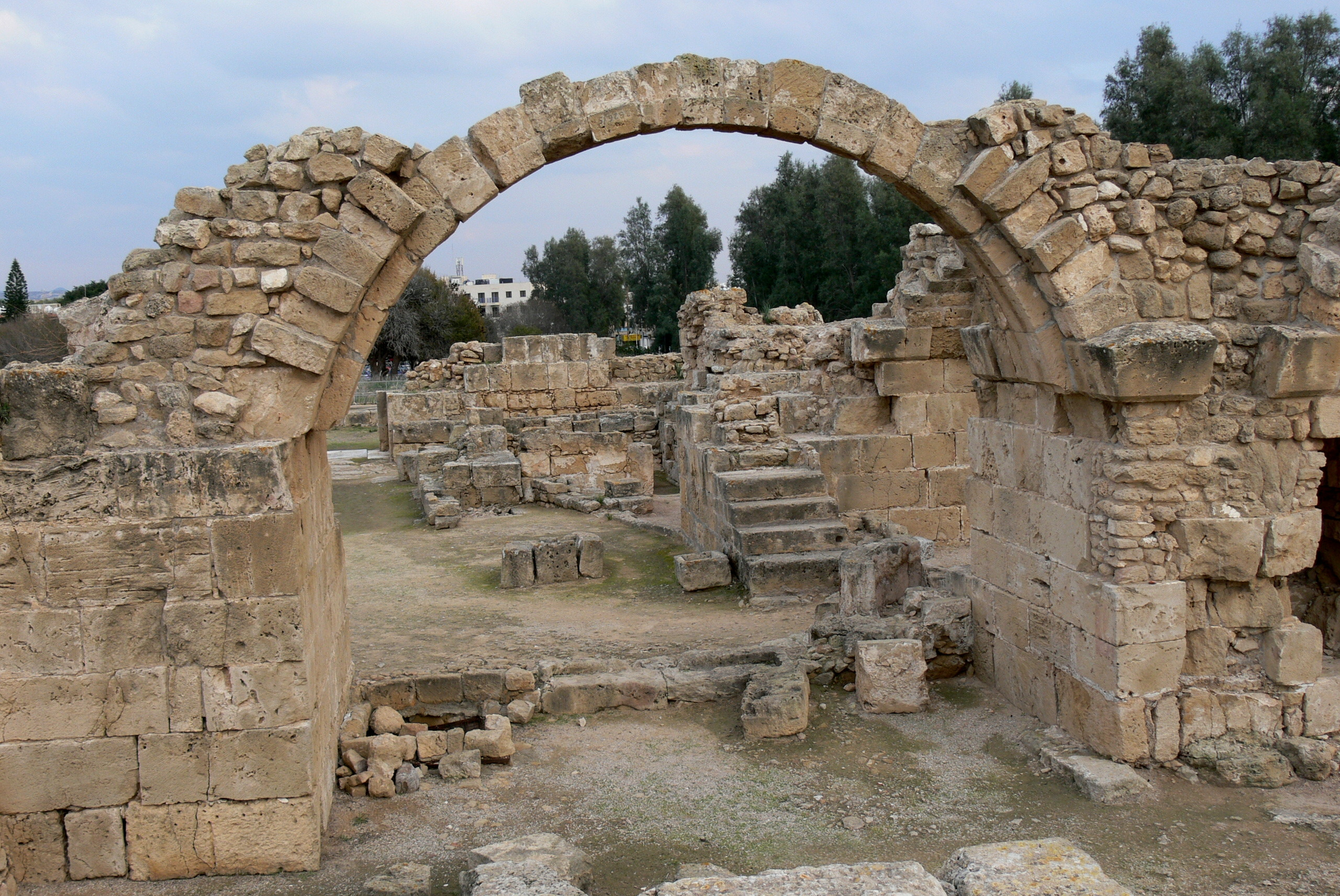 Paphos Archaeological Park. Saranda Kolones castle: Arches.